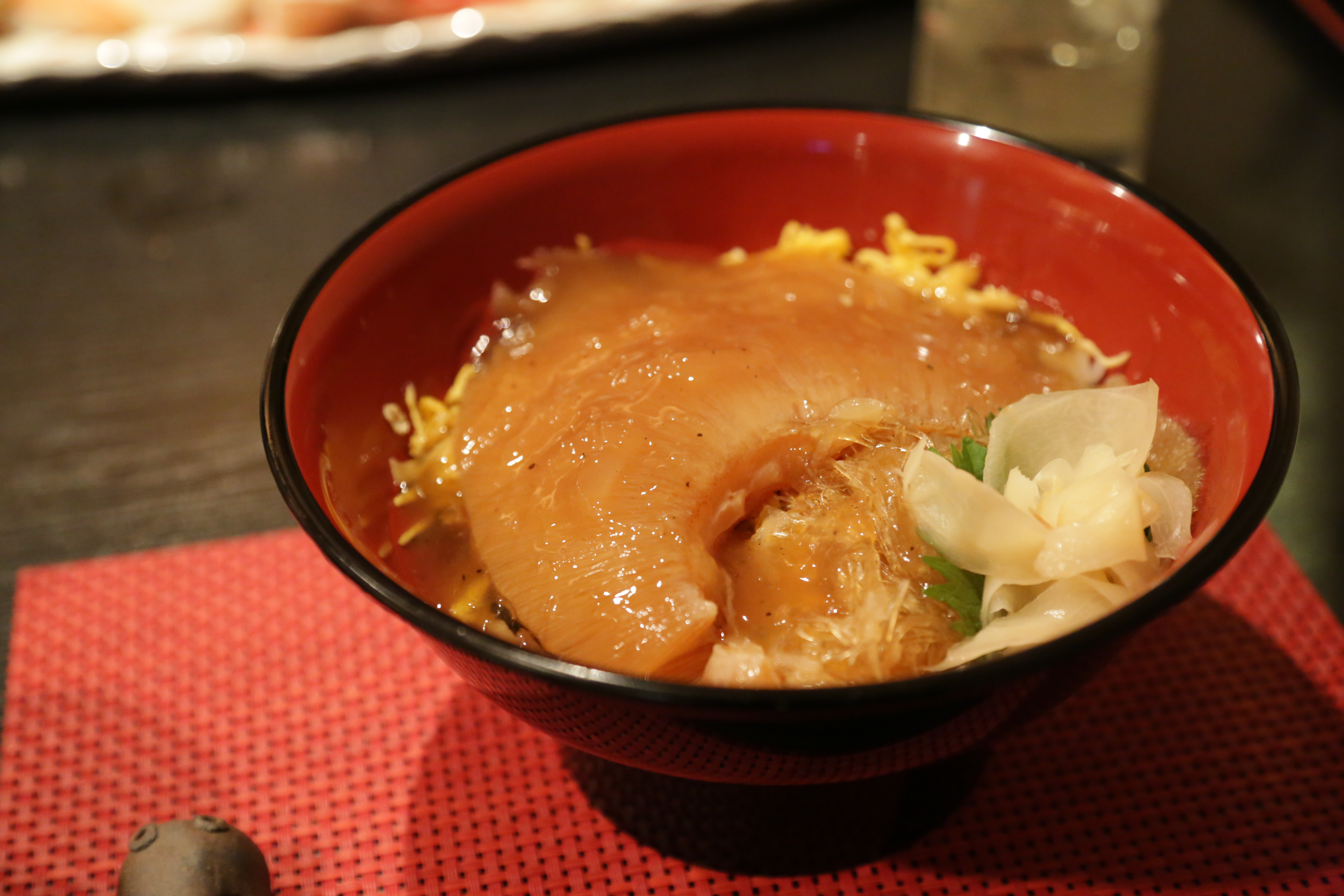 Shark fin rice bowl at Sushi house Ohmasa in Kesennuma, Miyagi, Japan.